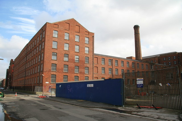 Murray's Mill, Ancoats This shows the large New Mill (1804)on the left and perpendicular to the Murray Street block (1804-06). The chimney is being retained and is very fine. Behind the chimney is Old Mill (1798).